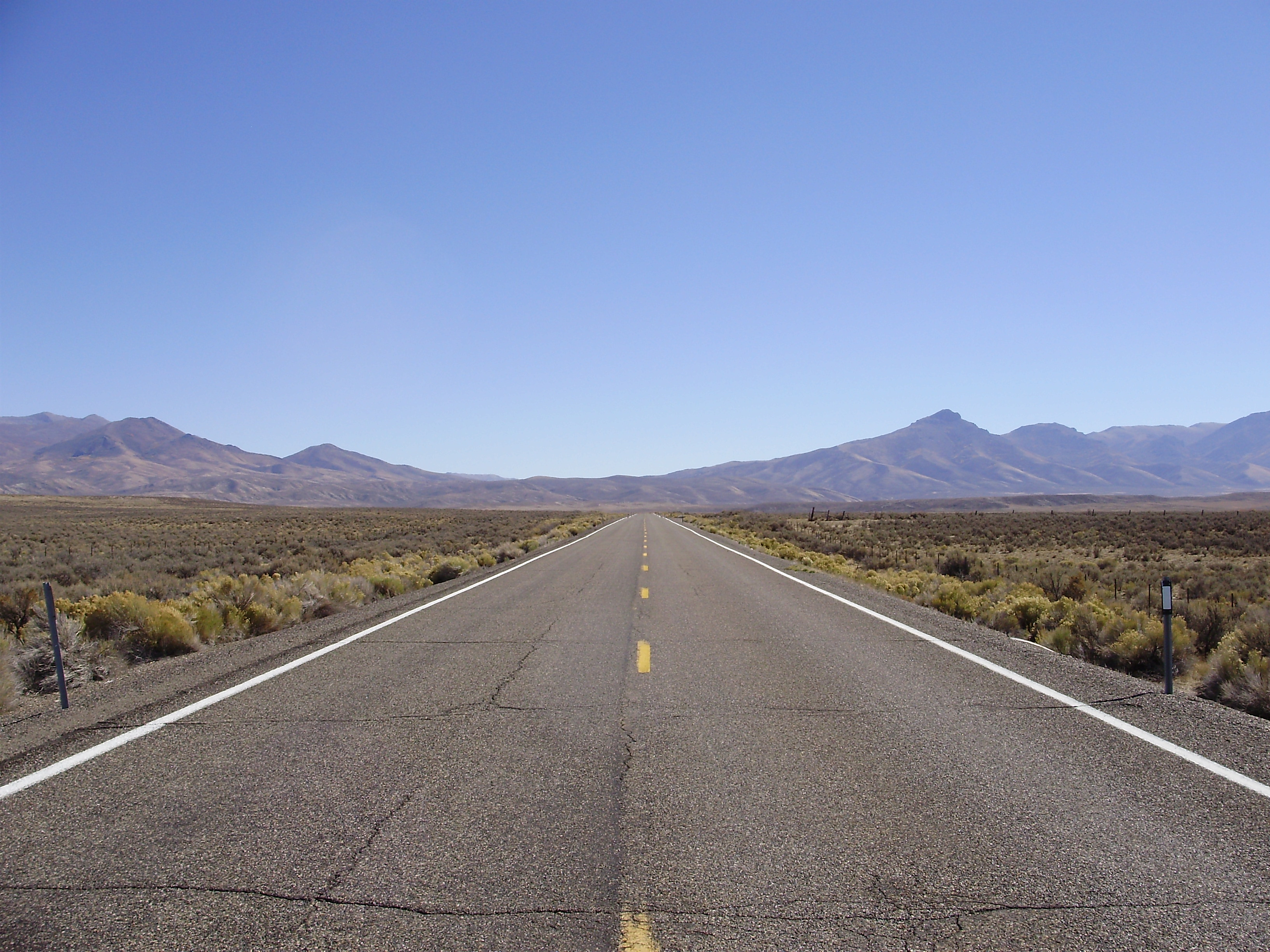 View southeast along Nevada State Route 229 (Secret Pass Road) about 4.4 miles from Interstate 80 in Elko County, Nevada